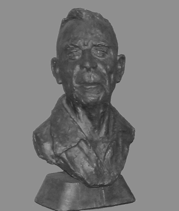 Bust of the Dimitrij Andrusov, Slovak geologist of Russian origin (1897-1976), in the Natural sciences faculty of the Comenius University Bratislava.